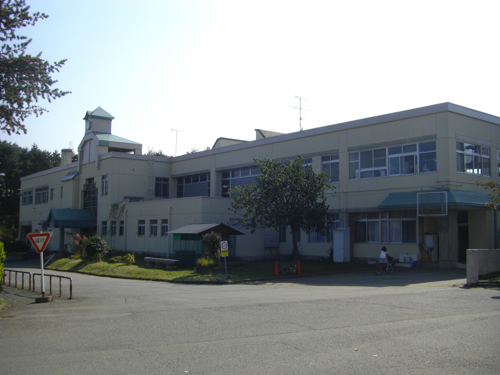 kotorisawa gakuen Place:Iwate'pref Morioka city